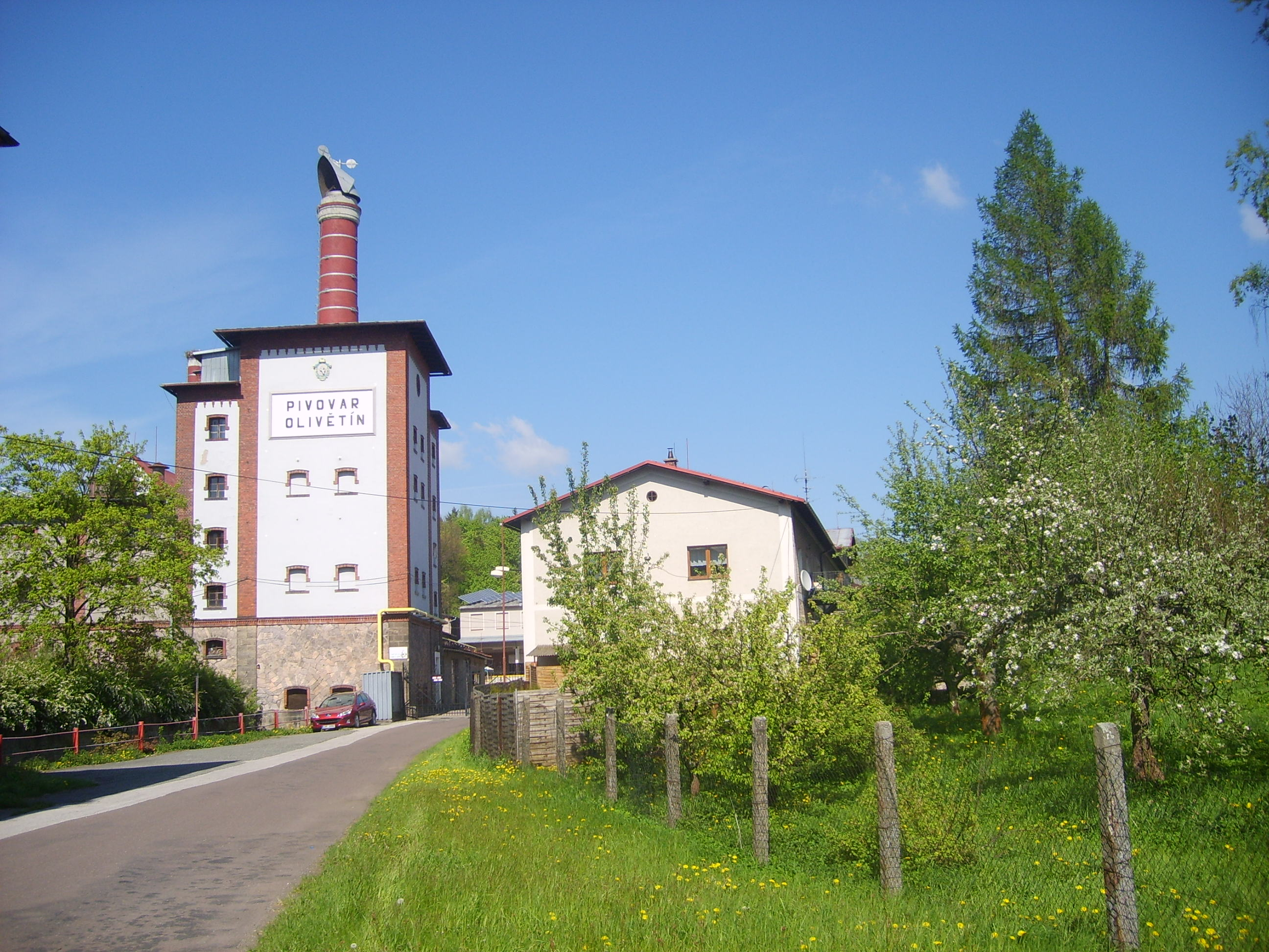 Brewery in Olivětín, a suburb of Broumov in the Czech Republic